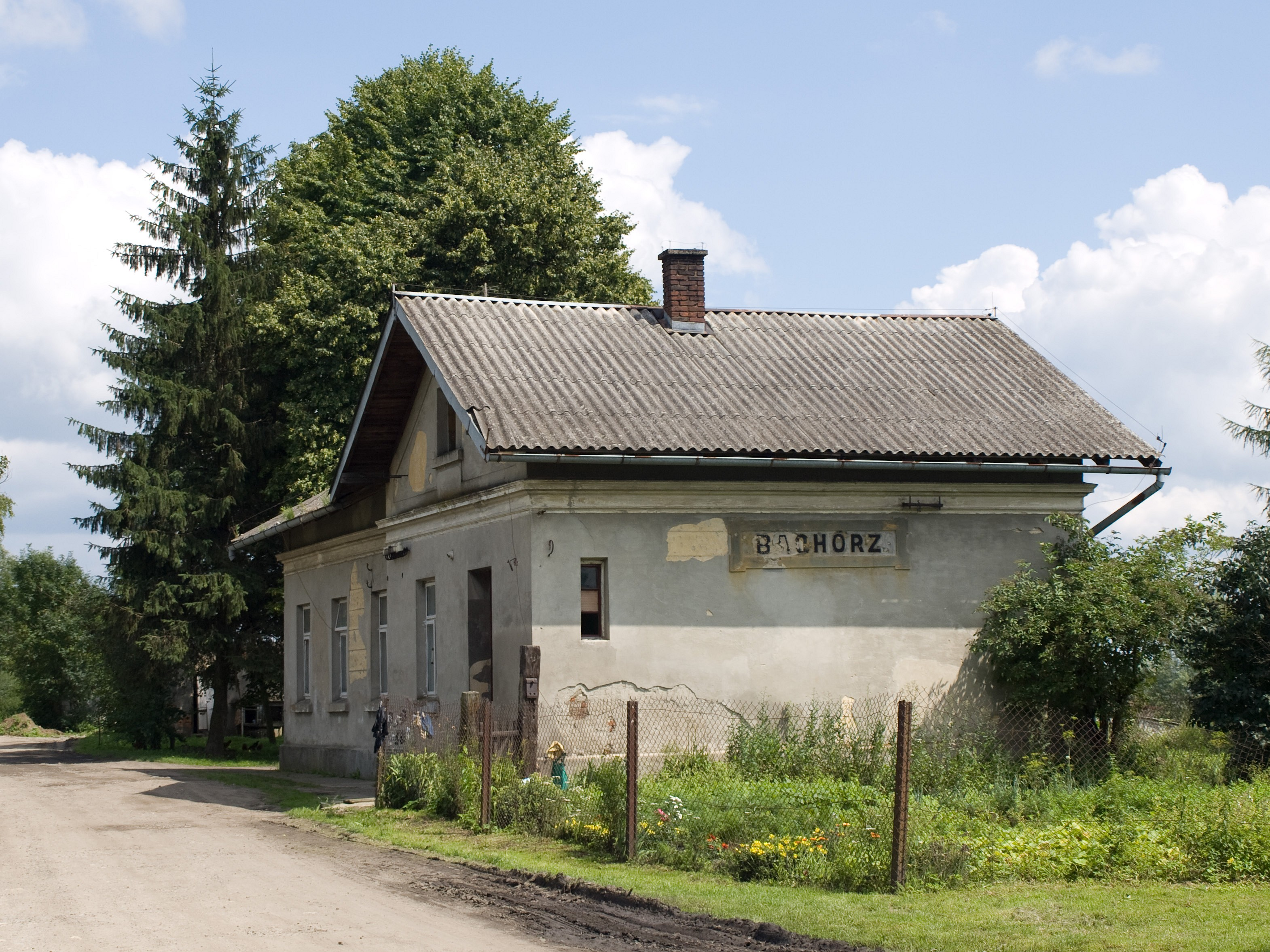 Train station, Bachórz, Subcarpathian Voivodeship